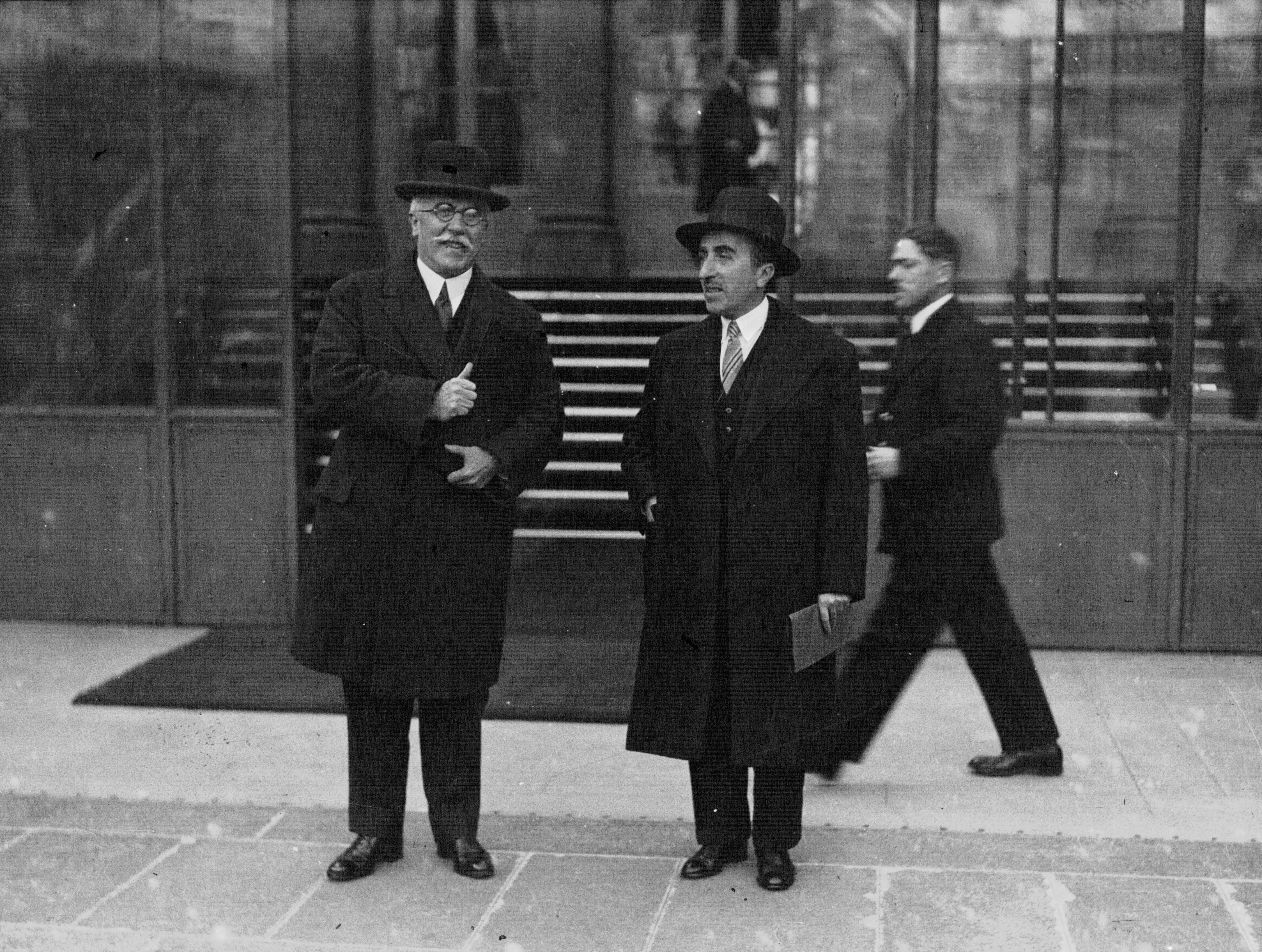 Council of Ministers at the Élysée Palace in 1932: Justin Godart (left) and Abel Gardey (right).